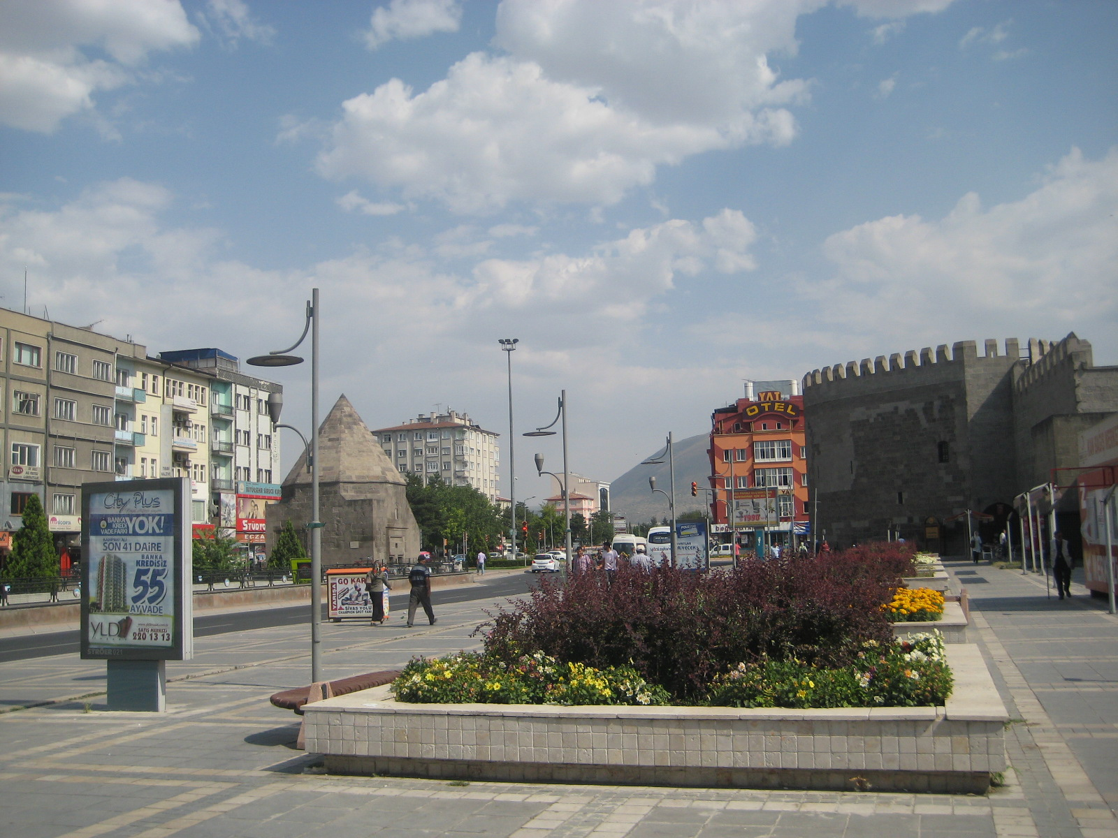 A picture of downtown Kayseri.